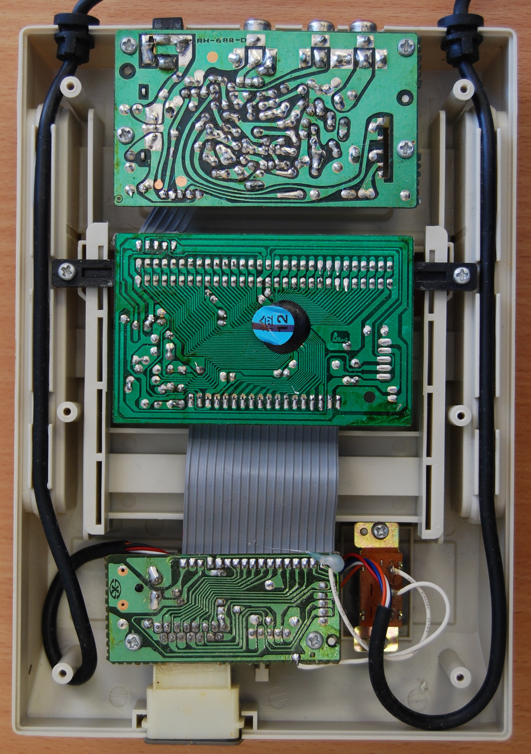 Dendy Junior II inside the case, bottom cover removed.